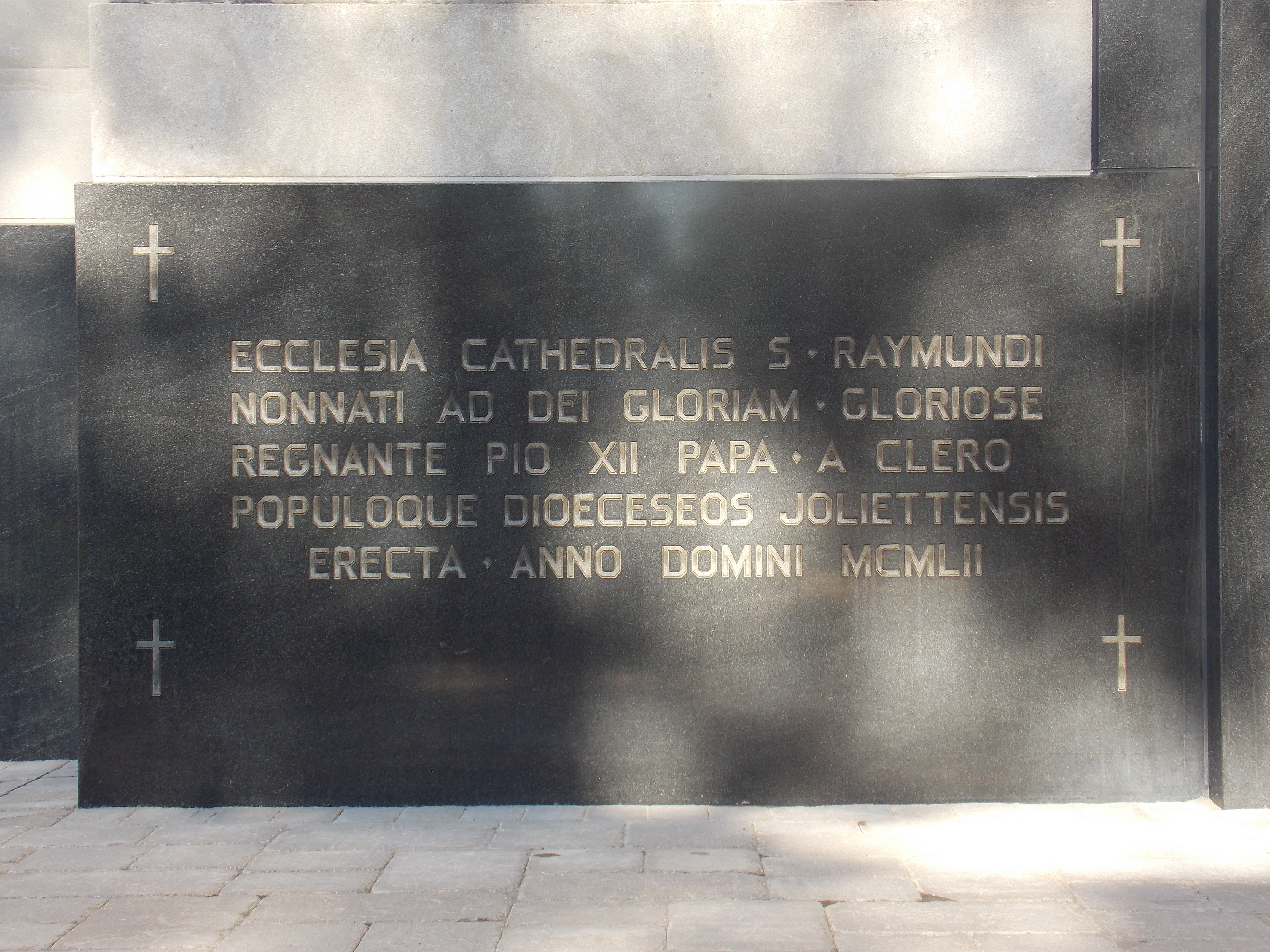 The Cathedral of St. Raymond Nonnatus is the seat of the Catholic Diocese of Joliet in Illinois.